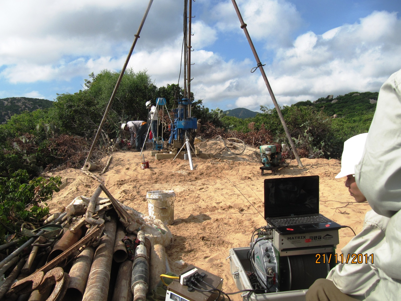 Geophysical survey in Vinh Hai, Ninh Thuan province on proposal project of nuclear power plant Ninh Thuan 2 (but now stopped)